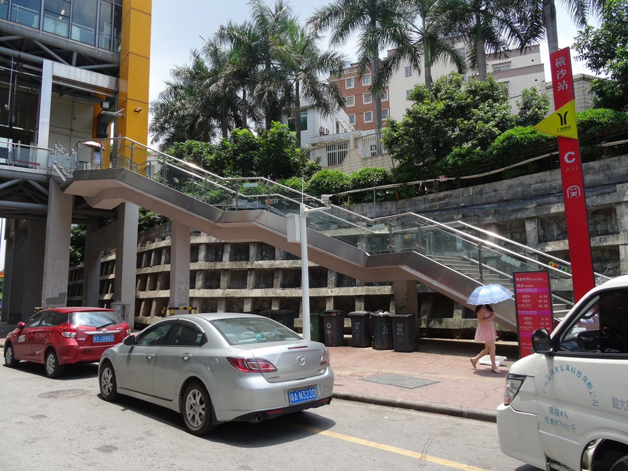 橫沙站嘅C出入口